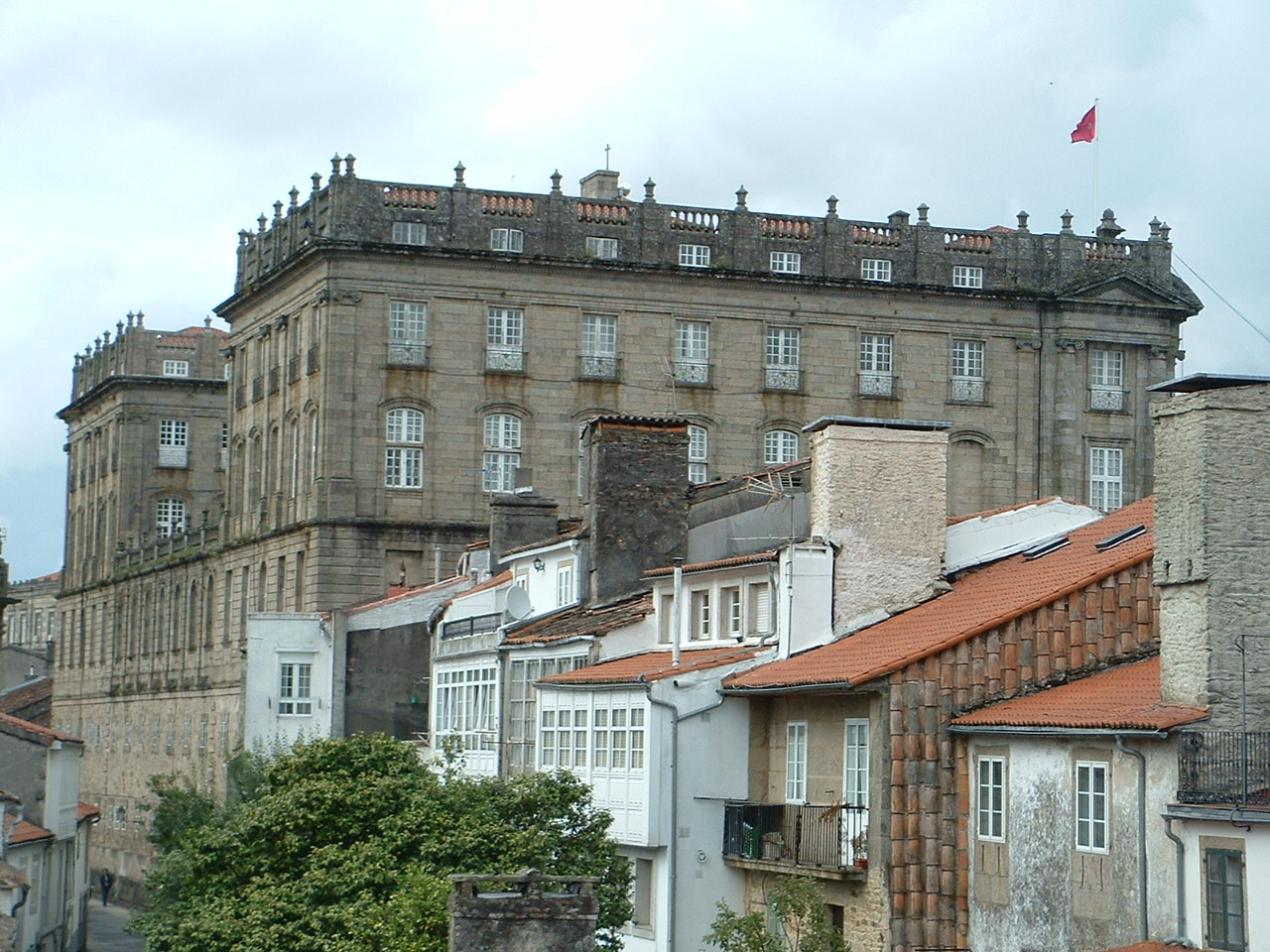 Rear side of Pazo de Raxoi (Town Council of Santiago de Compostela and Xunta de Galicia -Galician government-)